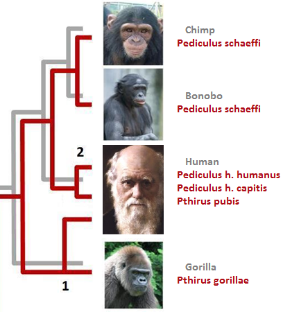 A likely scenario of cospeciation between hominies and their lice. The phylogeny of Hominine species (humans and close relatives) in grey and that of their blood-sicking lice (Pediculidae) in red. Co-speciation results in similar topologies except for two evolutionary events. First, gorilla lice switched to humans to found the species Crab louse. Second, the human louse Pediculus humanus duplicated into two forms, the head louse and body louse. (Based on Reed et al. 2007. Pair of lice lost or parasites regained... 5: 7.)